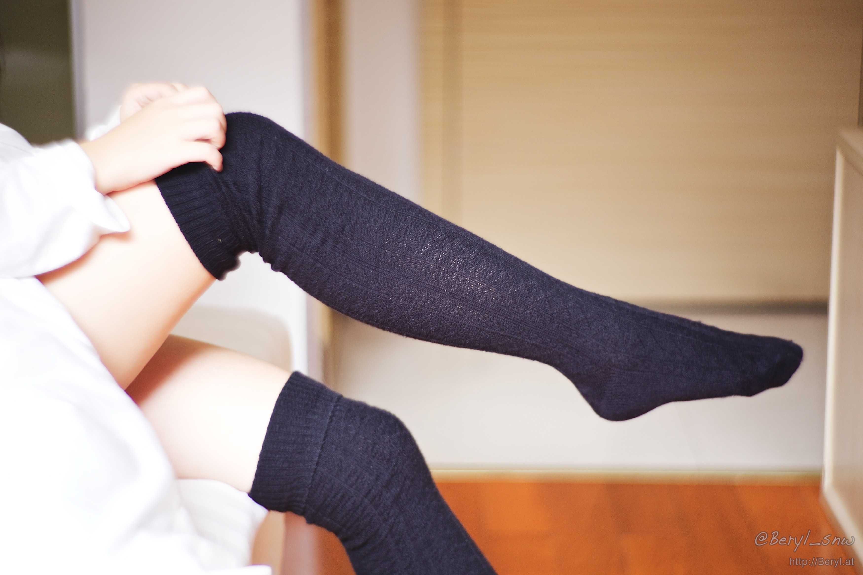 Knee highs self portrait Lomography Petzval Lens